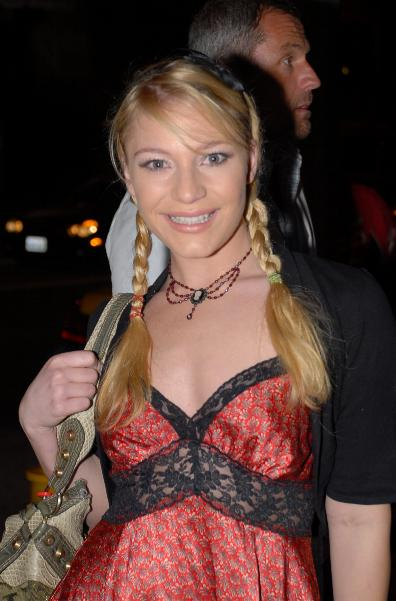 Aurora Snow at a party held by Wicked Pictures